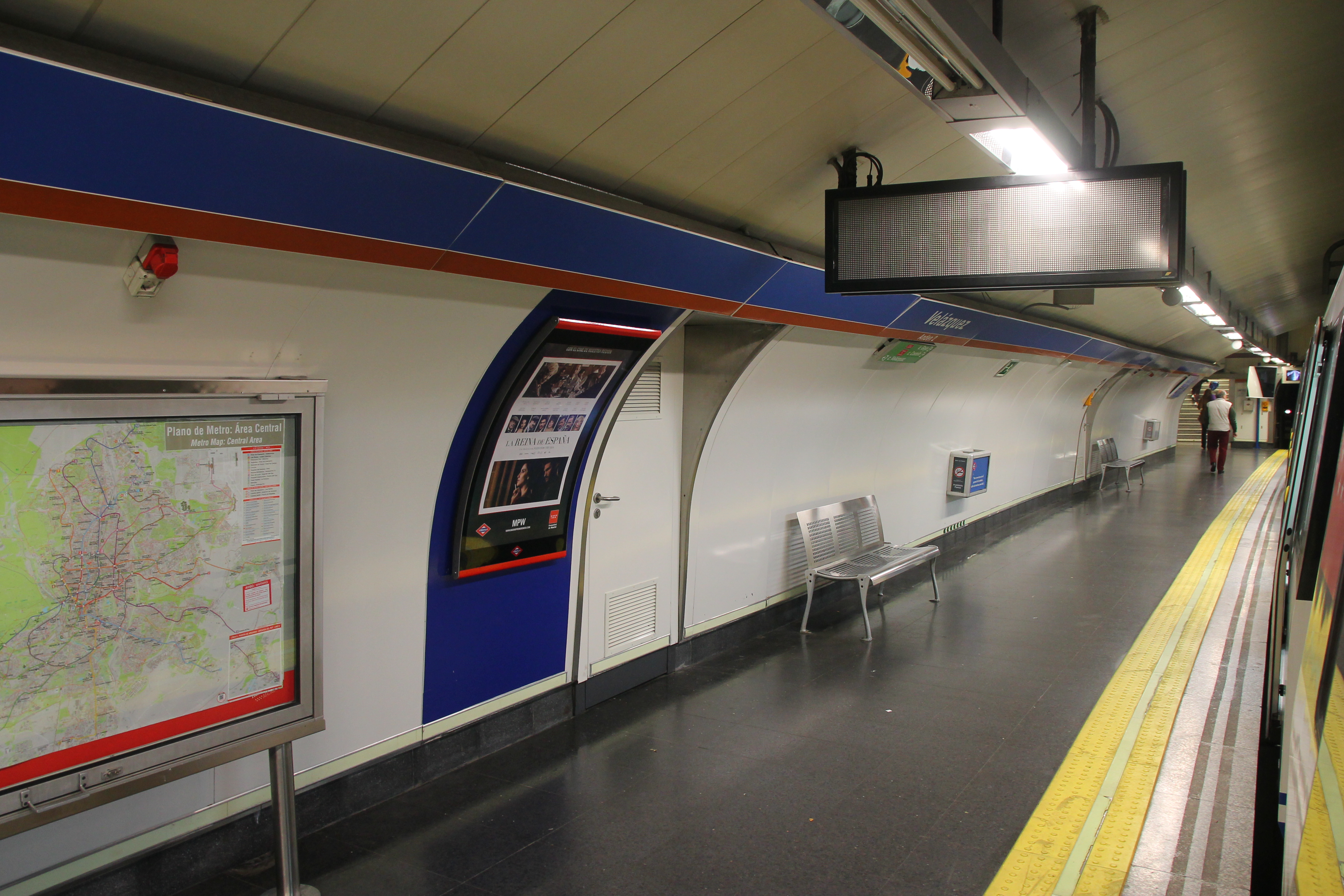 Estación de Velázquez